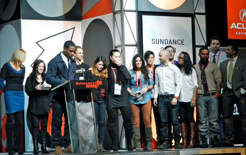 Ryan Coogler accepts award with the crew of Fruitvale Station at the 2013 Sundance Film Festival.